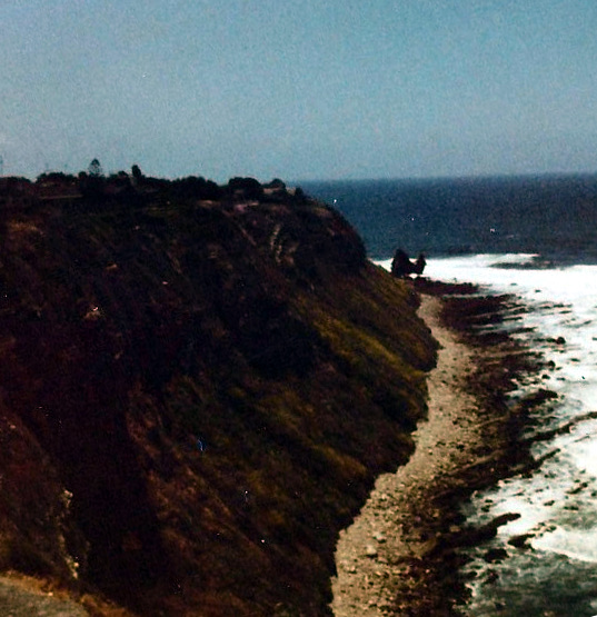 Looking at the SS Dominator wreckage off Palos Verdes, California from the southern trailhead circa 1981.